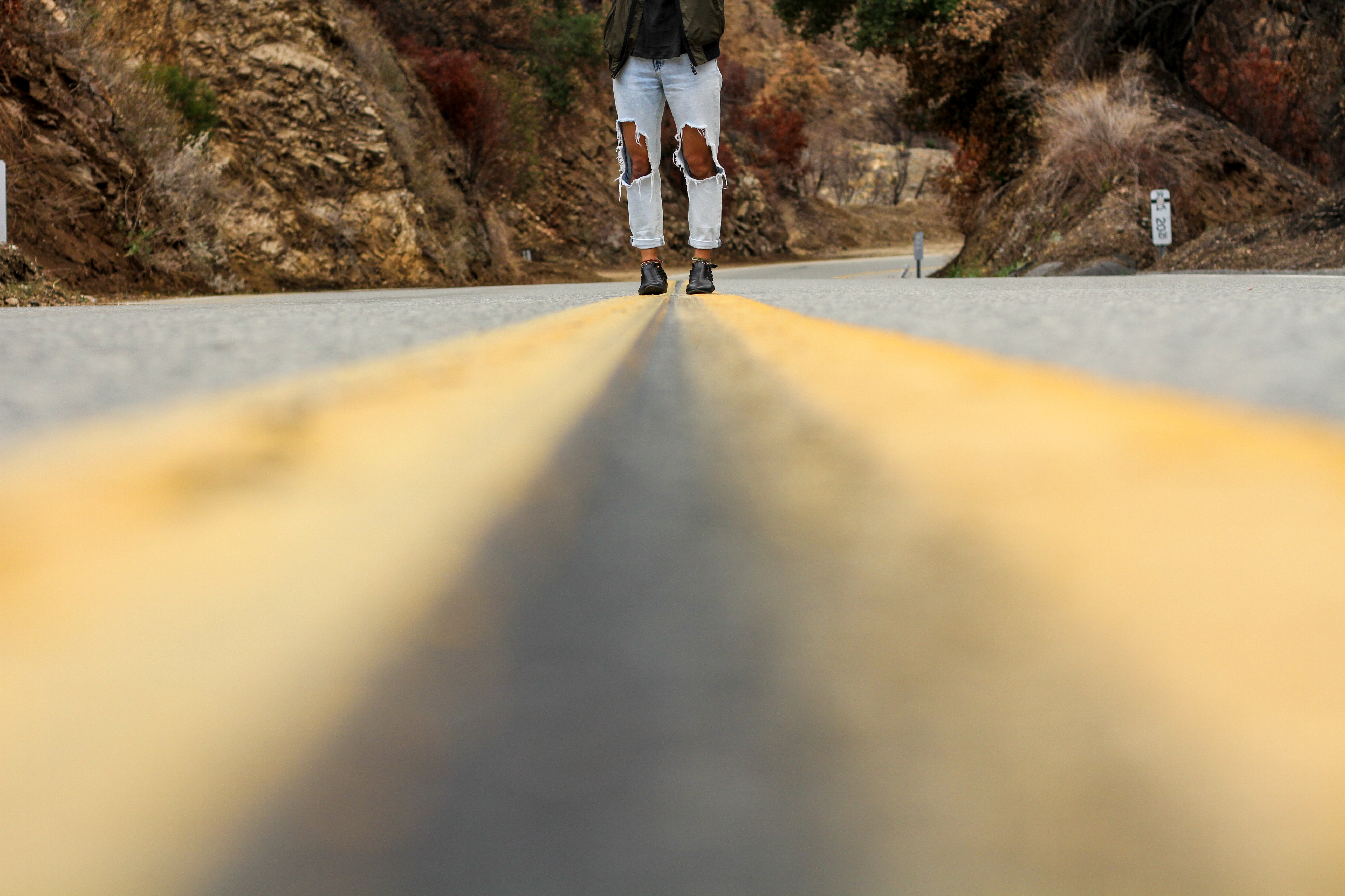 Azusa, United States